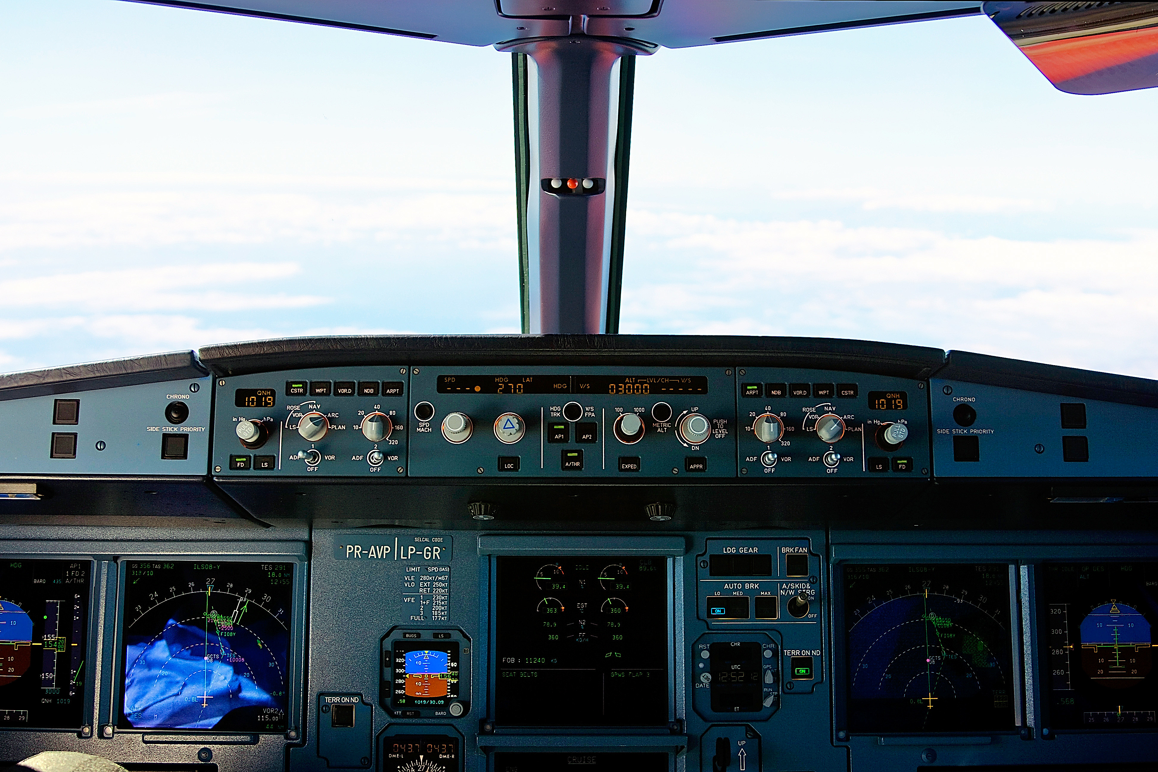 Picture taken during the ferry flight of the first A320 of Oceanair from Toulouse to Brazil. The aircraft was approaching Tenerife South for a technical stop.